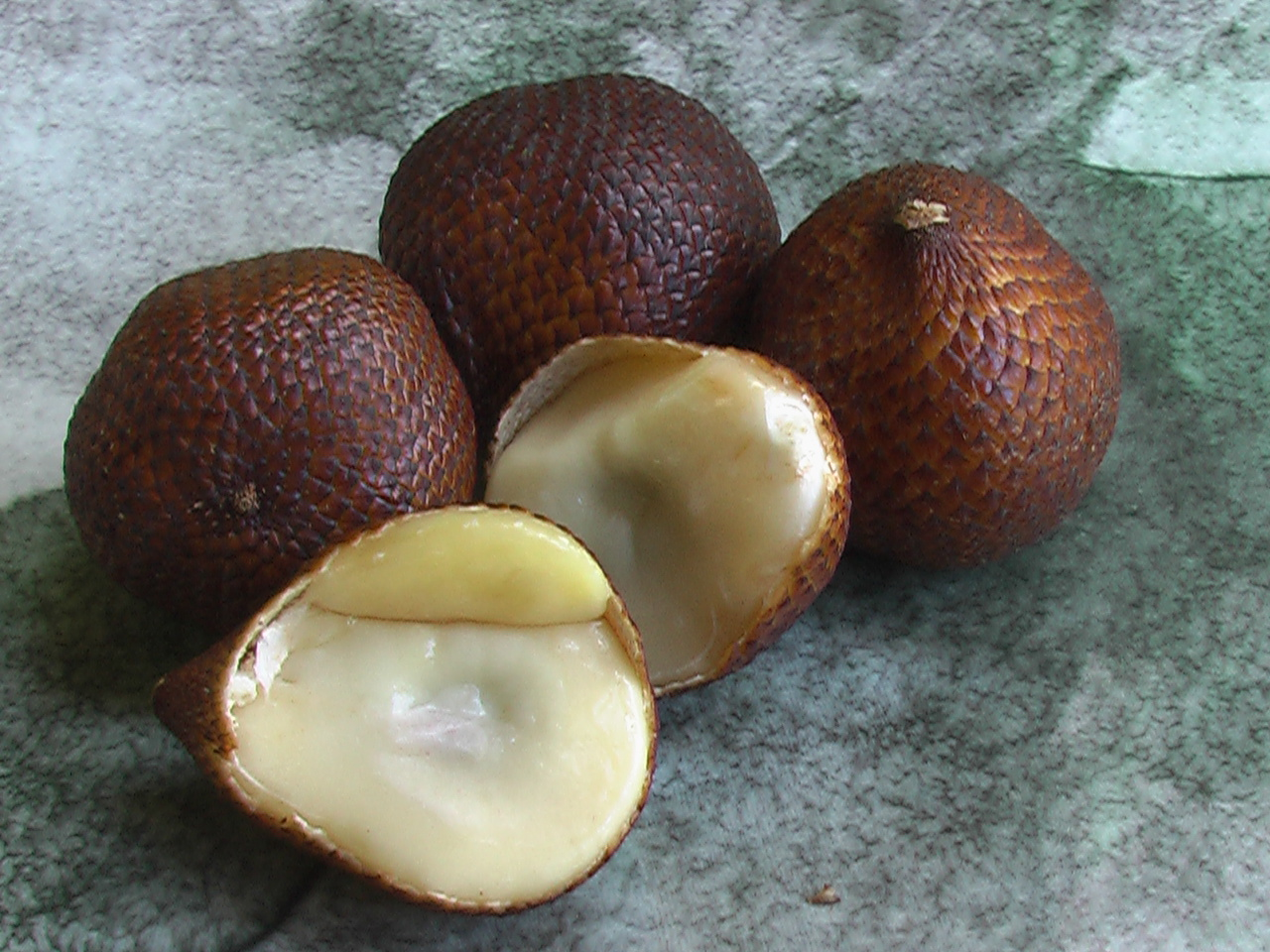 Salak, Salak (snakefruit) Location: Indonesia Cuisine: Indonesia